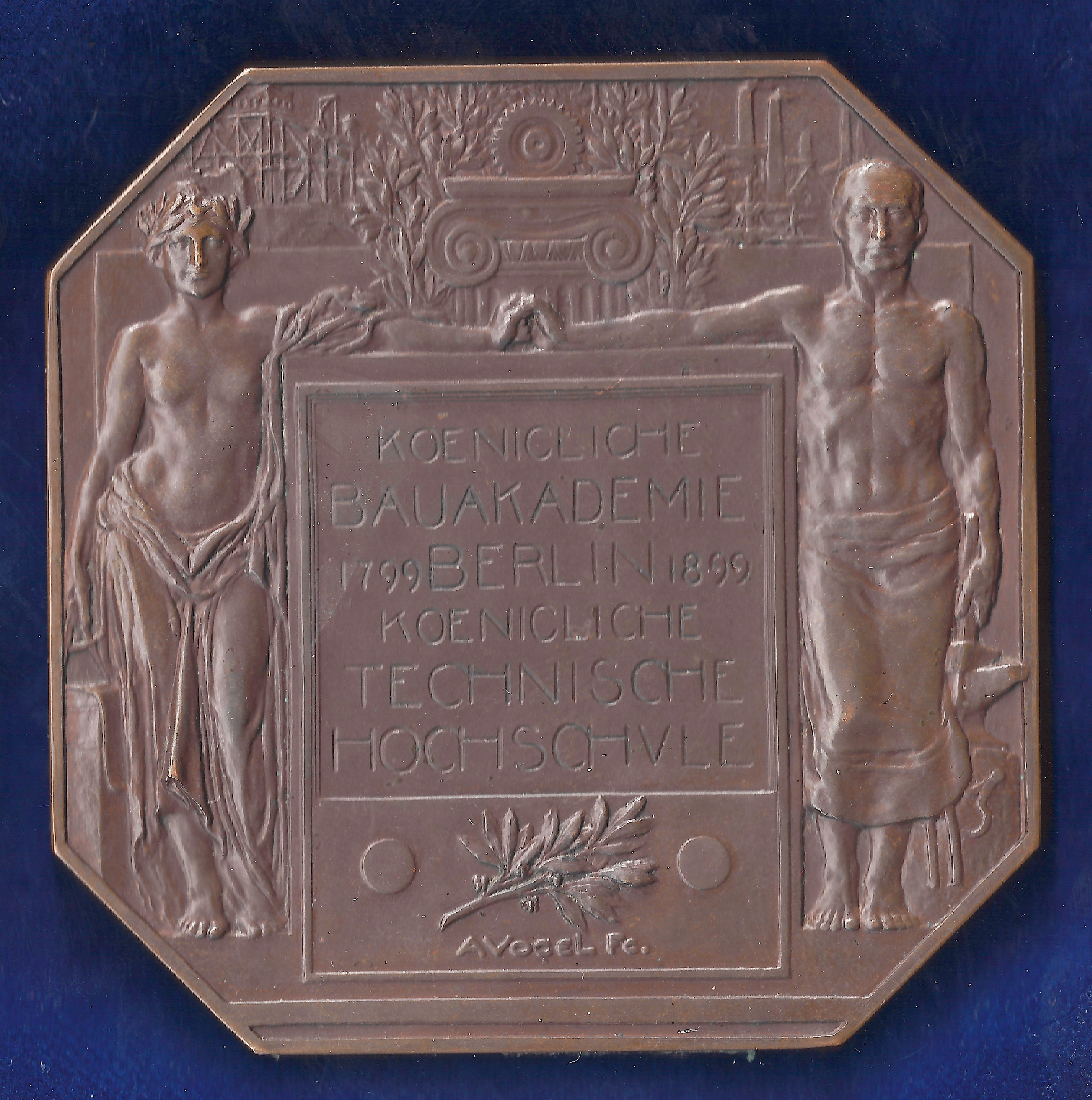 1899 early Art Nouveau University Medal TH Berlin, 100th Anniversary, today Technische Universität. Octagonal plaque medallion 72 x 72 mm. Around ancient head: "DER KULTUSMINISTER DER KŒNIGLICHEN TECHNISCHEN HOCHSCHULE"/ 6 lines on monument: "KOENIGLICHE BAUAKADEMIE 1799 BERLIN 1899 KOENIGLICHE TECHNISCHE HOCHSCHVLE". Universitätsarchivs Heidelberg XIIIa/57. Artist: A. (August) Vogel, 1859 Berlin - 1932 Berlin Condition: UNCIRCULATED.